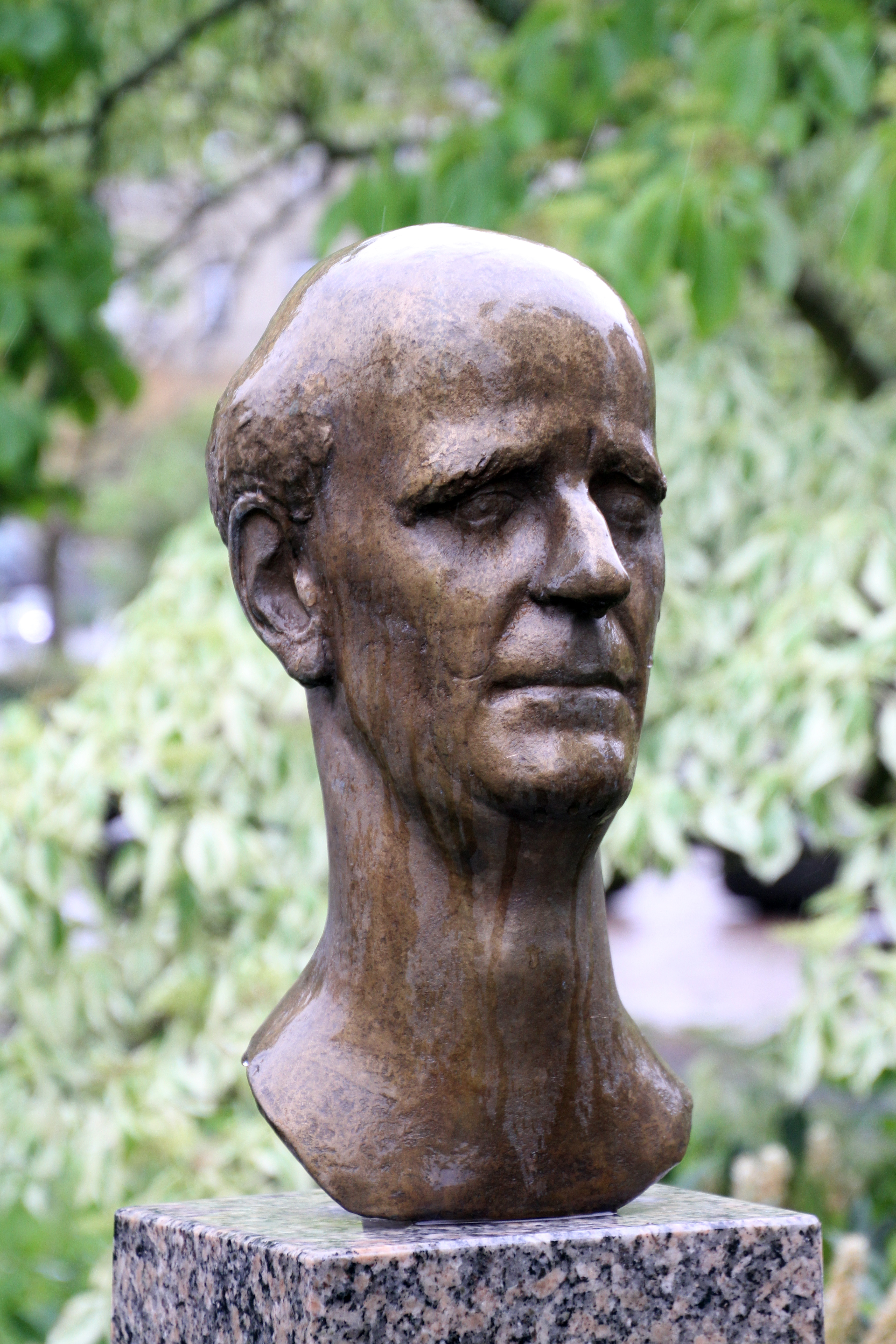 Bust of the conductor Wilhelm Furtwängler (1886-1954) at the Augustaplatz in Baden-Baden, built in 2009.